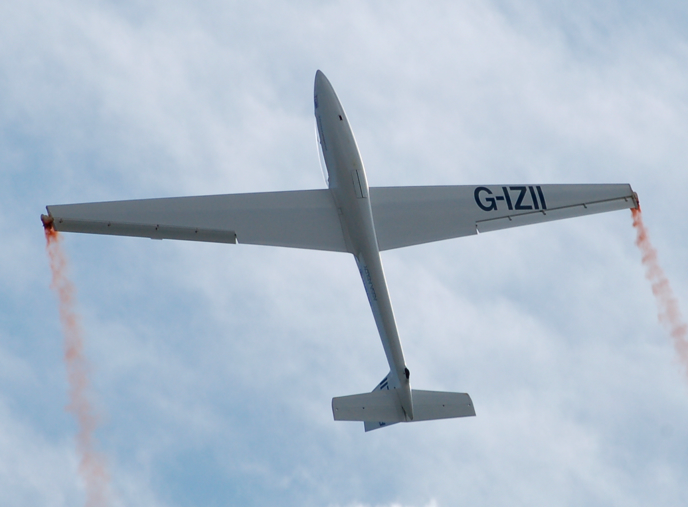 Swift S-1 glider (G-IZII), built 1993, performs during the Swift Aerobatic Team Display at Kemble Battle of Britain Weekend, Cotswold Airport, Gloucestershire, England. The Swift Team display is a Swift glider doing aerobatics (such as continuous rolls and flying upside down) while on tow by a Piper Pawnee. The Swift is then released to perform solo aerobatics (as seen here) and a landing. A Silence SA180 Twister propeller aircraft performs aerobatics around the ensemble.